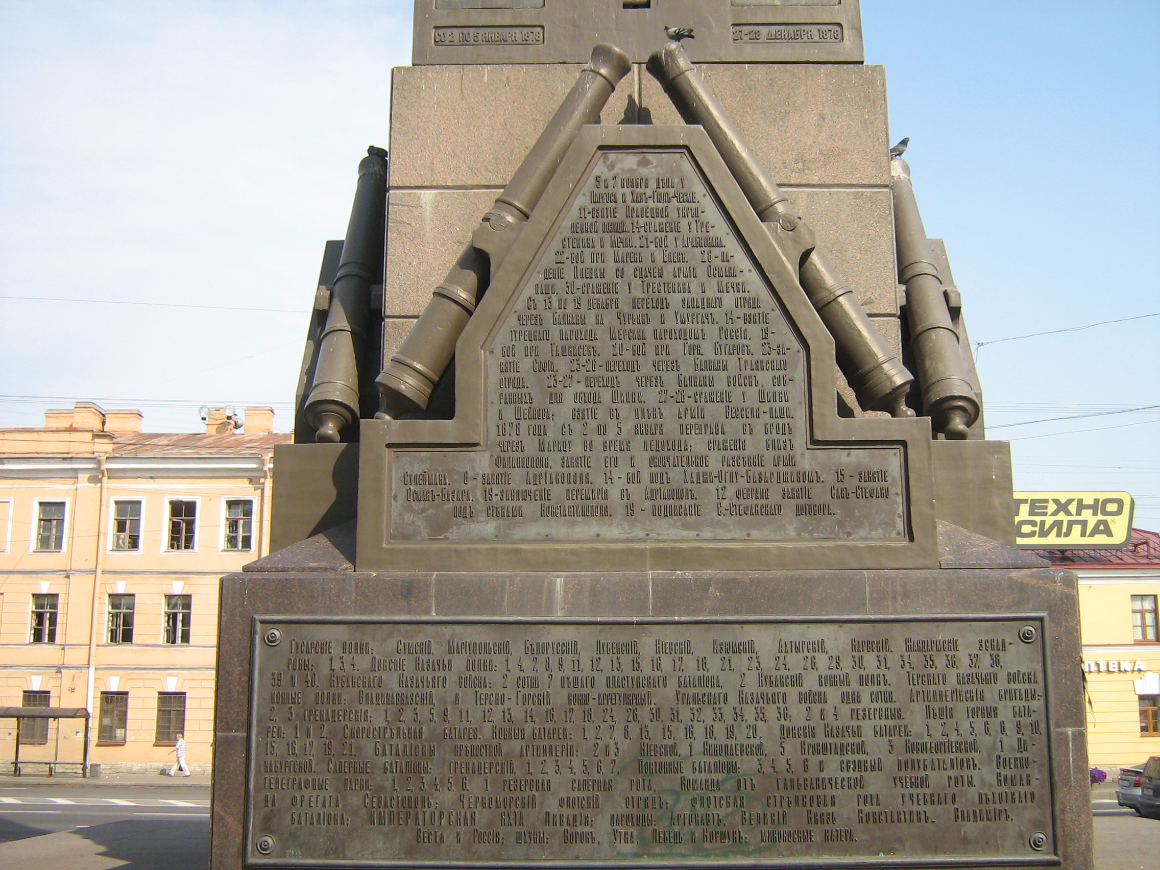 Saint Petersburg (Russia), Izmailovsky Prospect, Column of Glory.